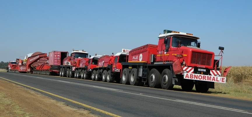 Photo: D.Gallop